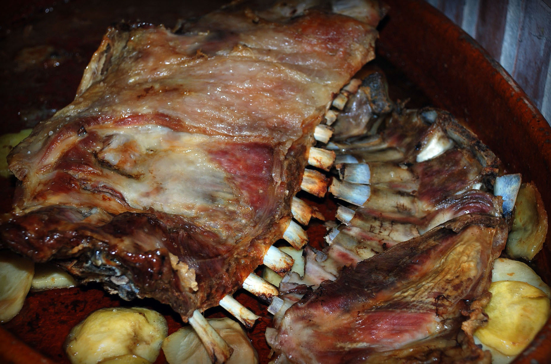 Striploin roast lamb. Palentine traditional dish.